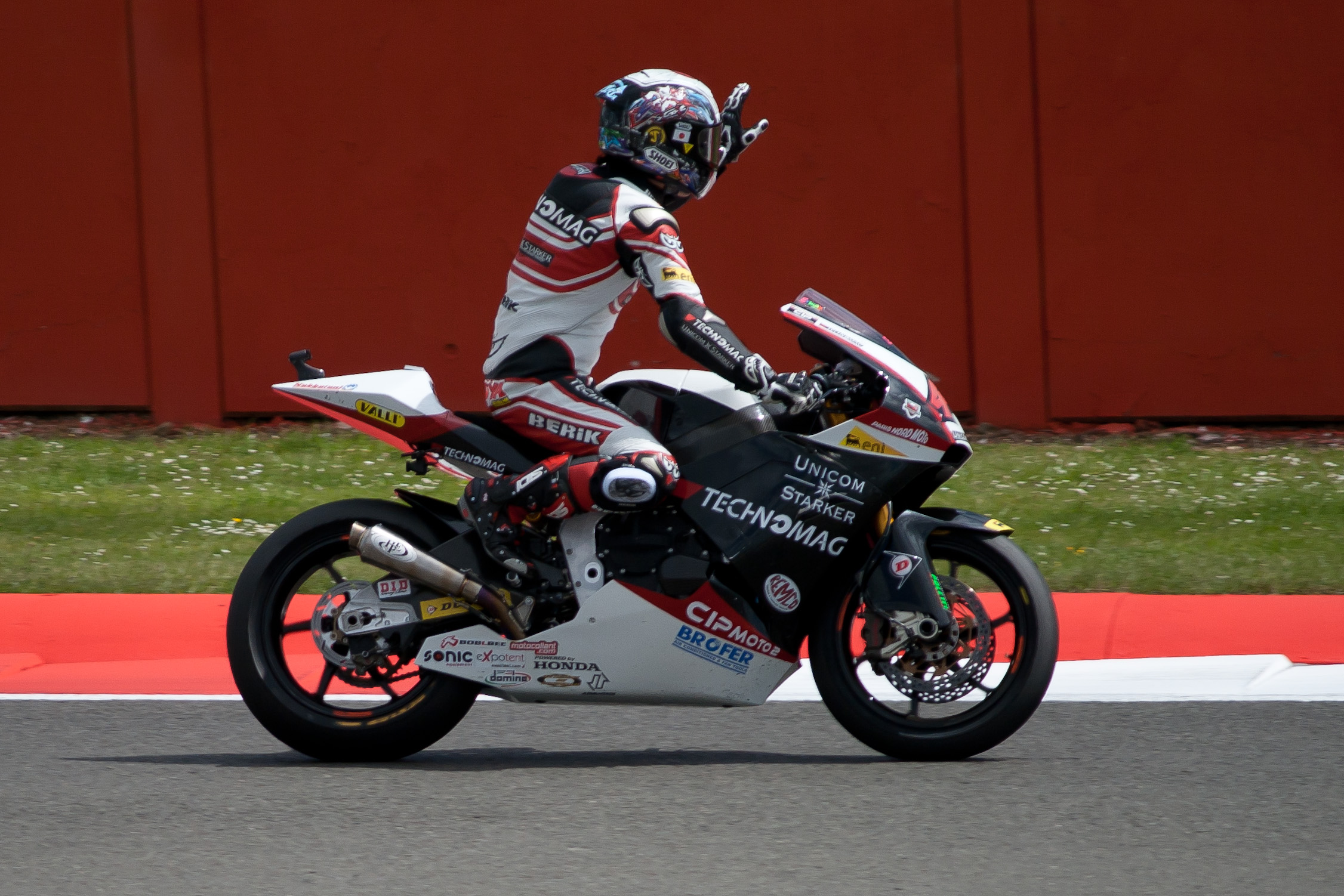 Shoya Tomizawa waves to fans after the Moto2 race at Silverstone, 2010.